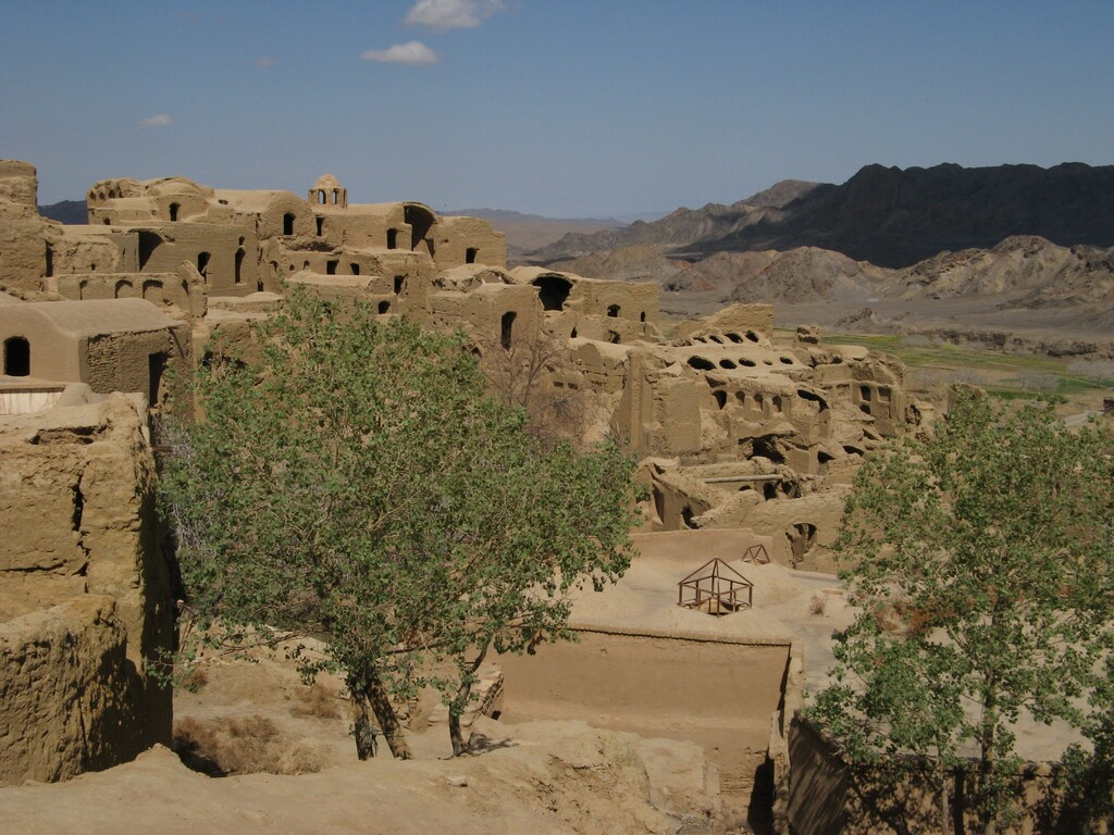 Kharanaq, Ardakan County, Yazd Province.